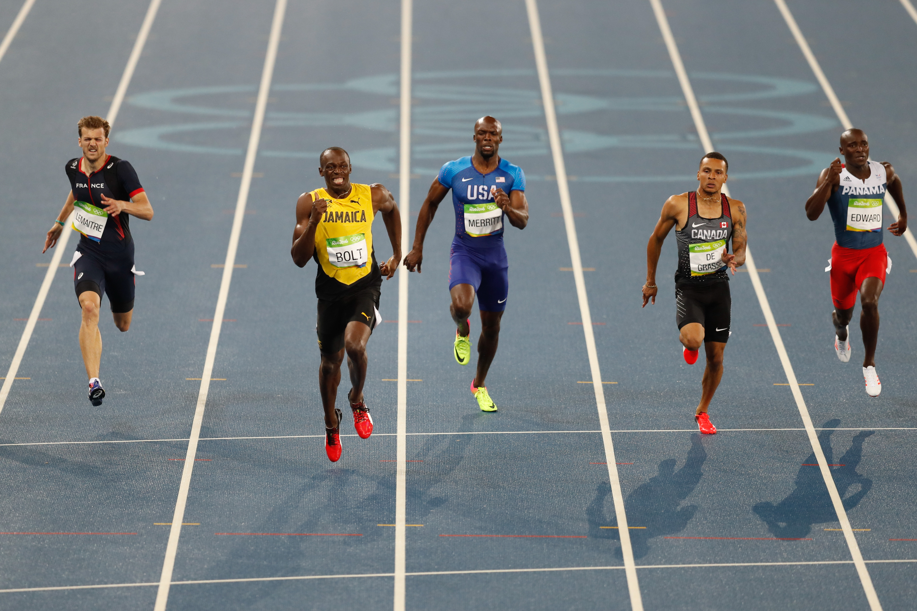 Rio de Janeiro - O Jamaicano Usain Bolt vence prova dos 200m rasos do atletismo e leva medalha de ouro nos Jogos Rio 2016, no Estádio Olímpico (Fernando Frazão/Agência Brasil)